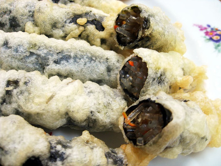 Gim-mari-twigim (fried seaweed rolls)